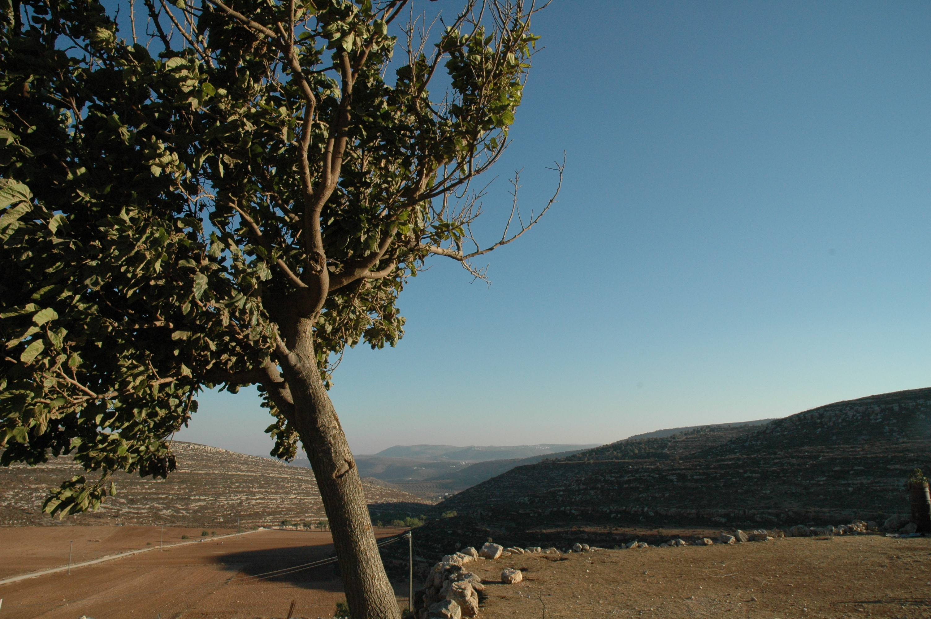 An unidentified tree in the West Bank.